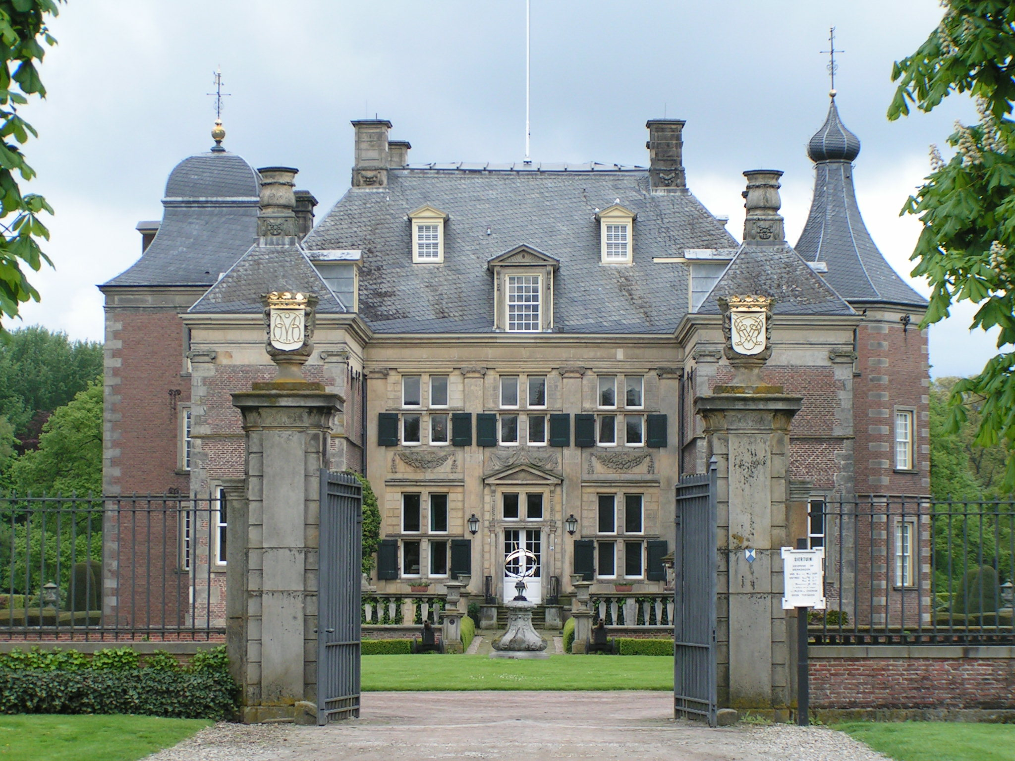 Weldam Castle at Kerspel Goor (Twente, Netherlands)